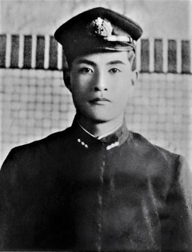 Yukio Seki just after marriage